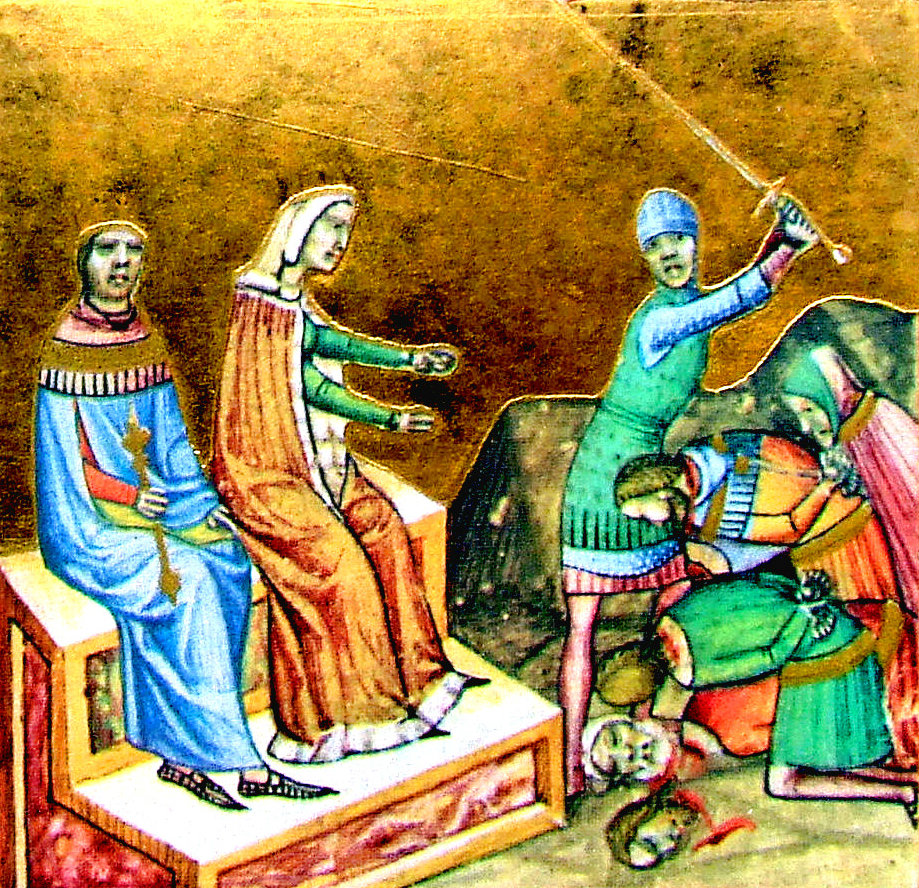 Béla's parents—Béla II of Hungary and Queen Helena of Rascia—at the assembly of Arad in 1131